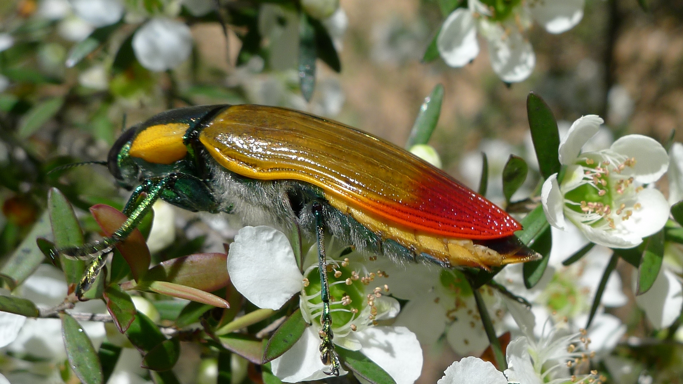 Buprestidae. Wollemi-Yengo, NSW Australia, December 2013.